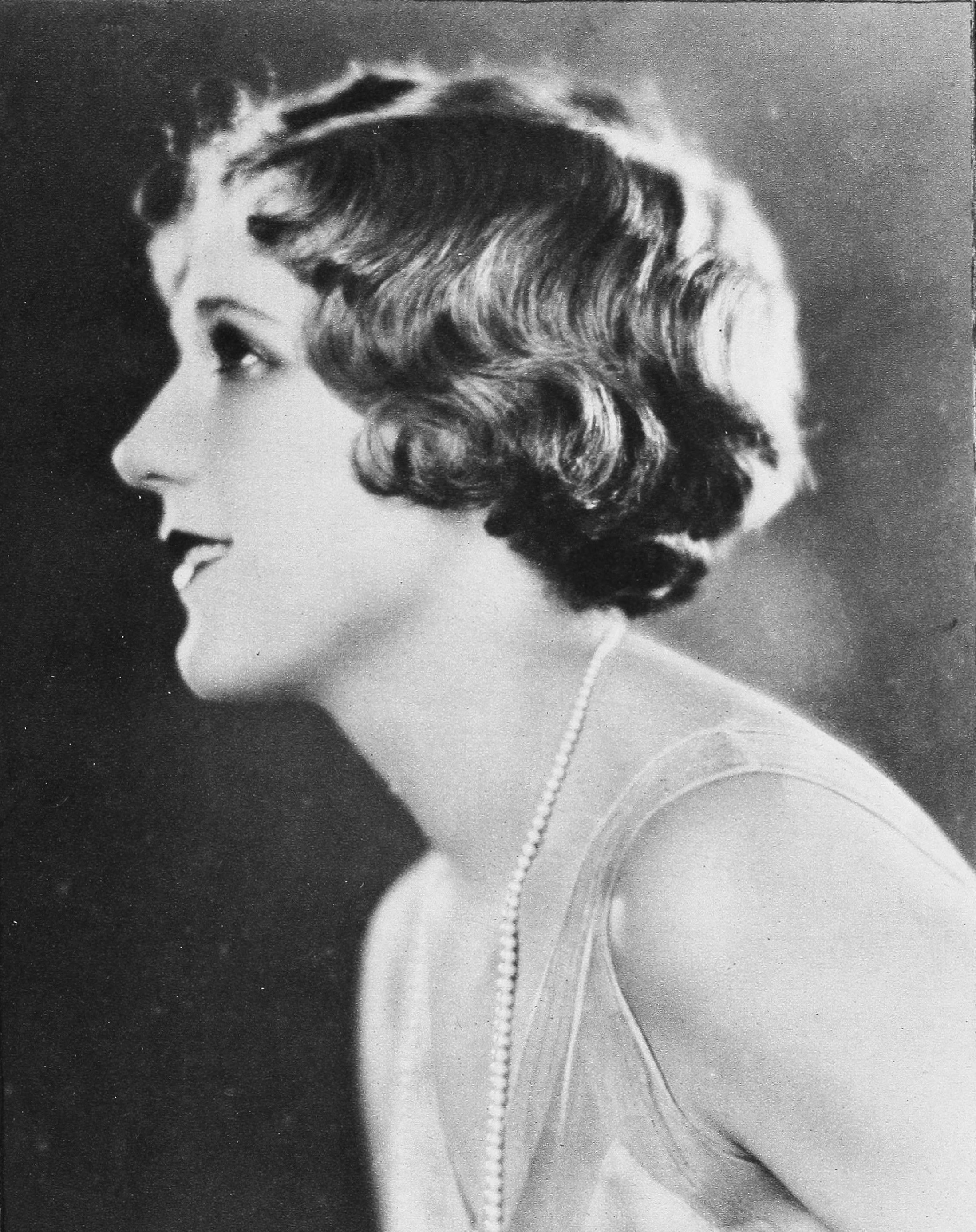 Included in the set of Rolf Armstrong's 16 screen beauties.